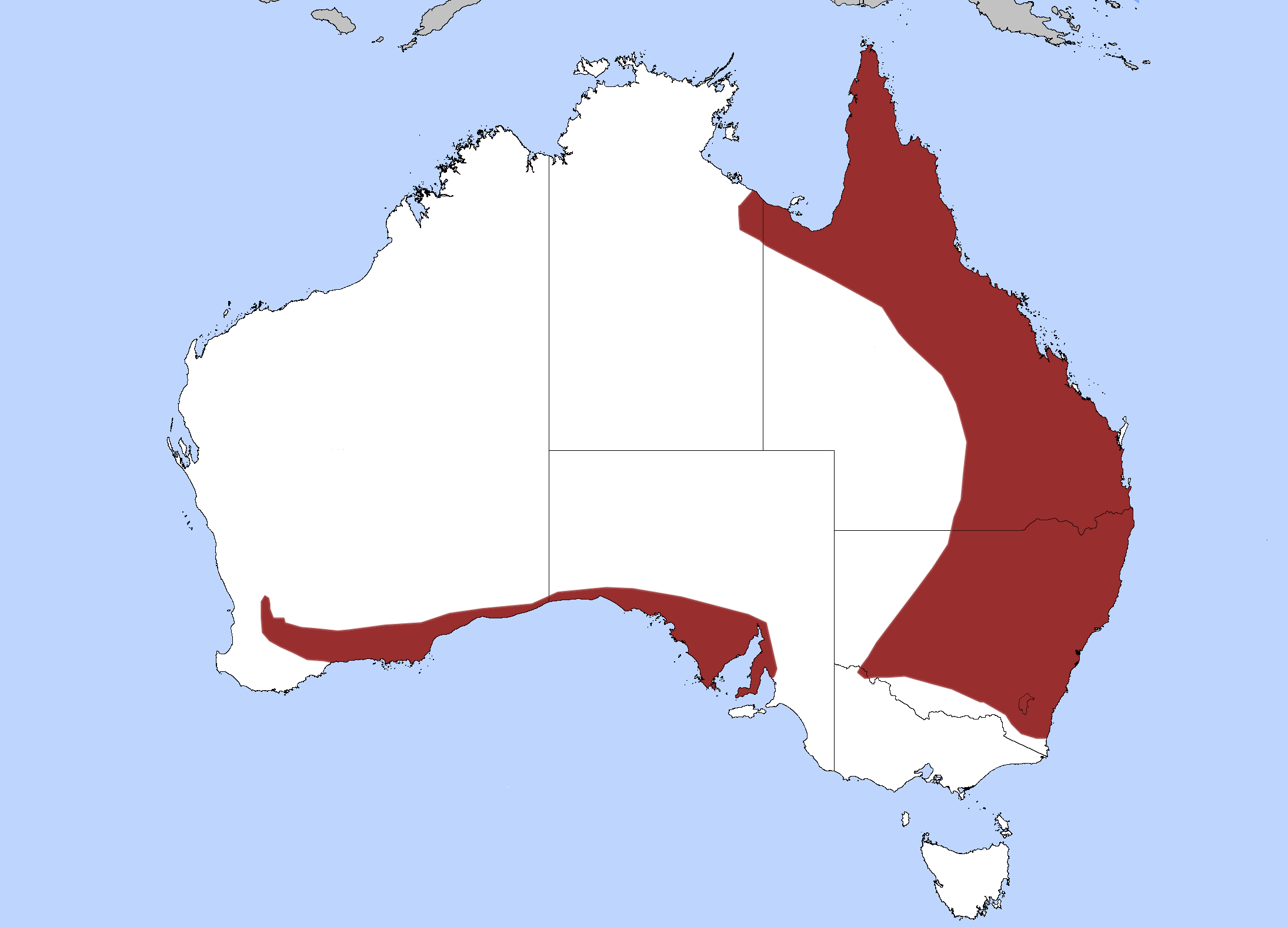 The Distribution of the Common Death Adder